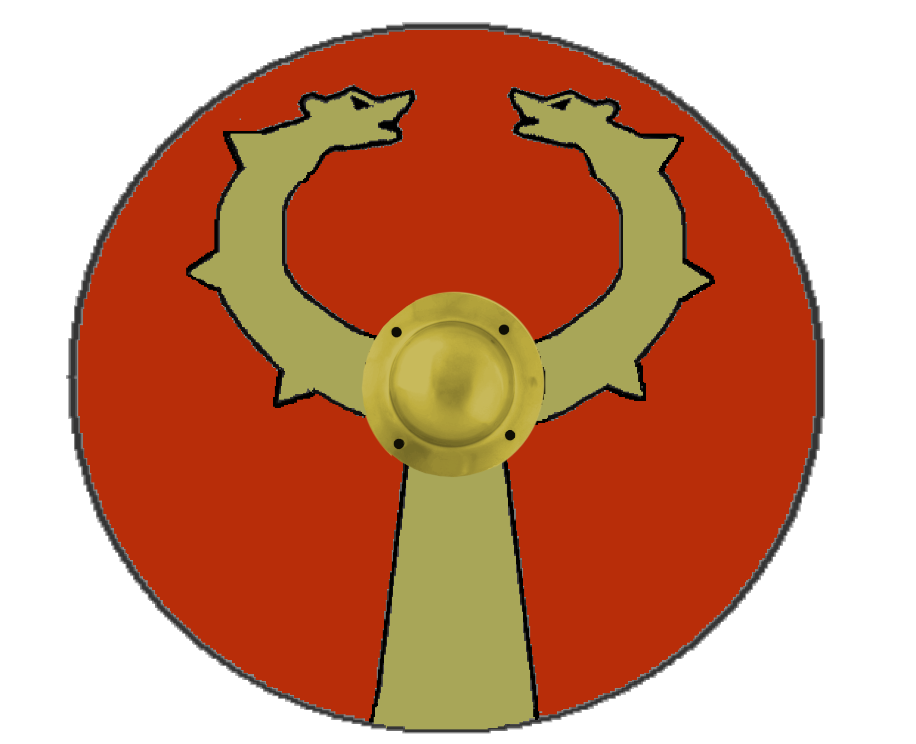 Shield pattern o.t. Celtae seniores, a auxilia palatina unit listed in the Magister Peditum's infantry roster, also assigned to his Italian command.